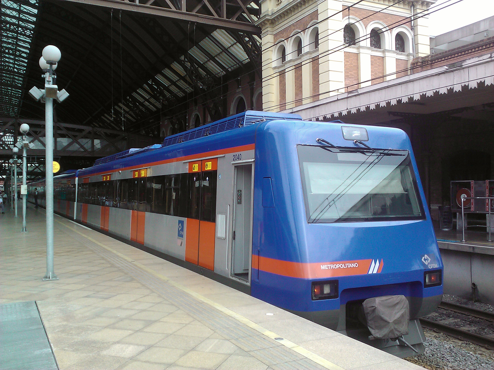 CPTM 2000 Series - A 1999 Spanish-built Train by CAF and Alstom still with the old (and my favorite) corporate livery on duty as an Express Subway complementary to the "3/Red" line of Sao Paulo's Subway. "Luz" Station, Sao Paulo, Brazil.